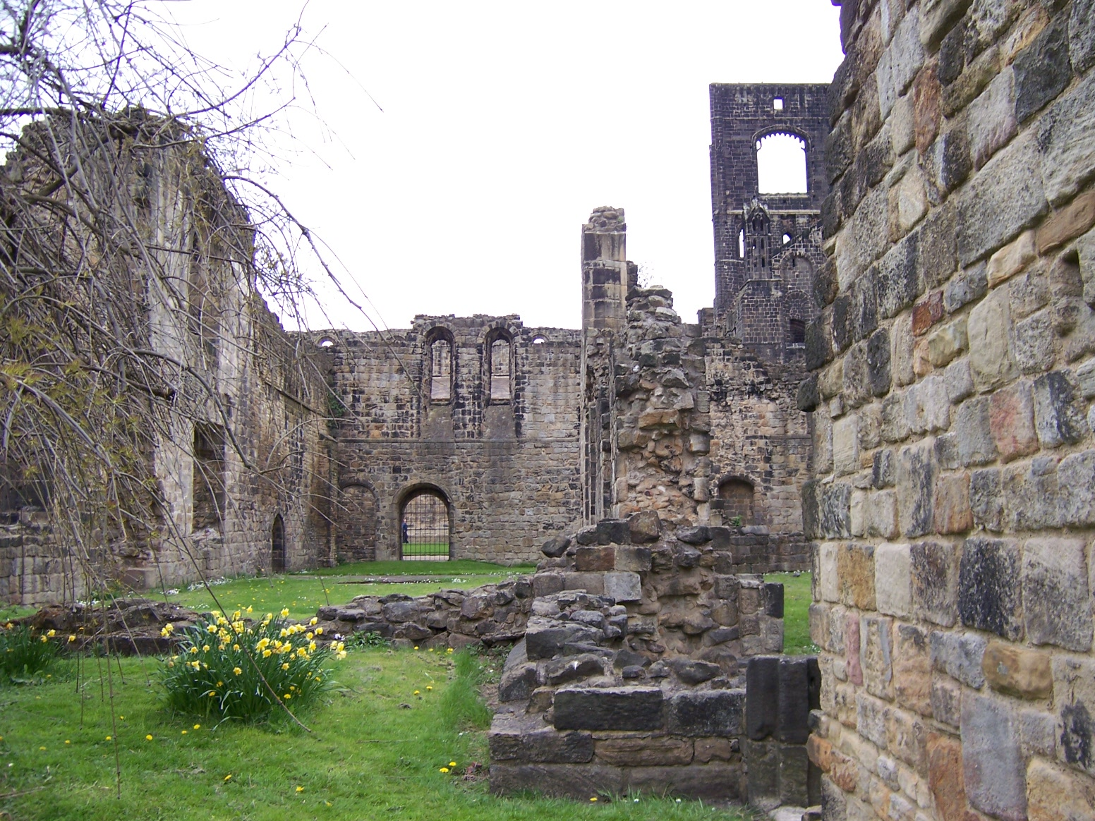 former refectory of Kirkstall Abbey in Leeds, Yorkshire (England) own work; photo taken on 30 April 2006